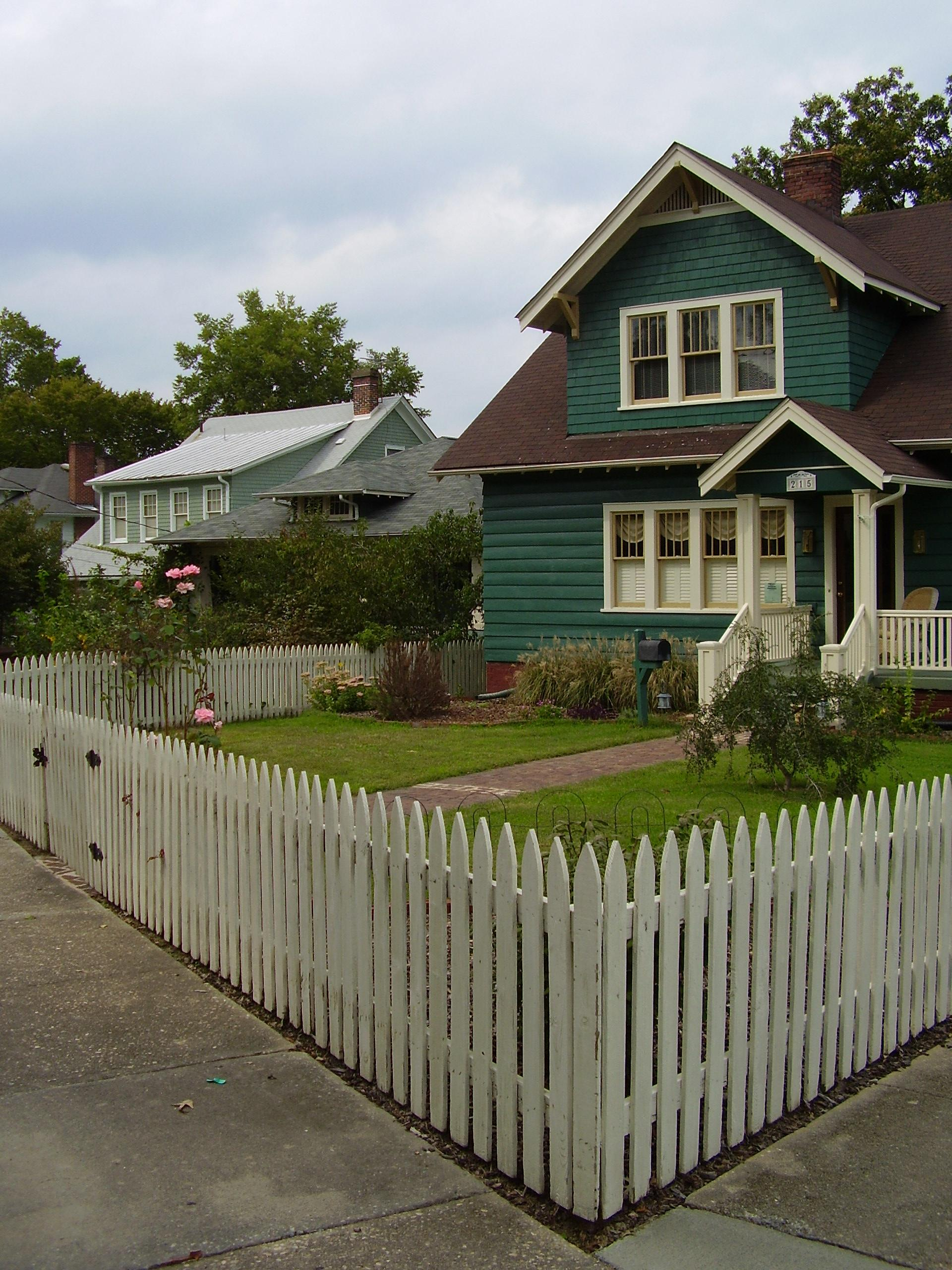 Houses in the Fisher Park neighborhood, Greensboro, North Carolina.